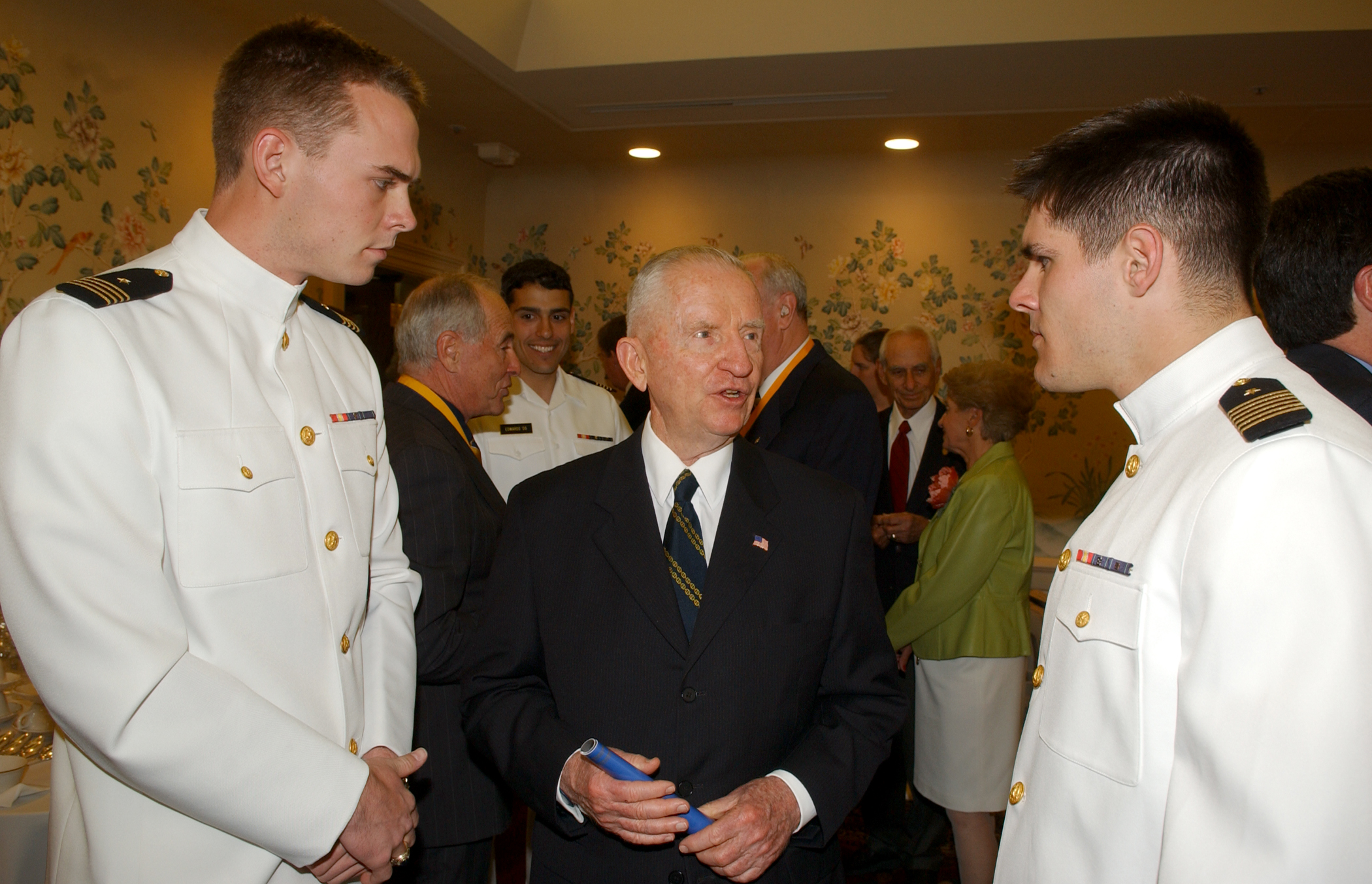 Annapolis, Md. (Apr. 15, 2005) - Mr. H. Ross Perot speaks with U.S. Navy Midshipmen prior to a special ceremony for four new Naval Academy Distinguished Graduates. The graduates will be honored for providing a lifetime of service to the nation or armed services, making significant contributions through public service, and demonstrating strong interest in supporting the Navy and their Alma Mater. The four new Naval Academy Distinguished Graduates joined only 24 others to be honored. U.S. Navy photo (RELEASED)